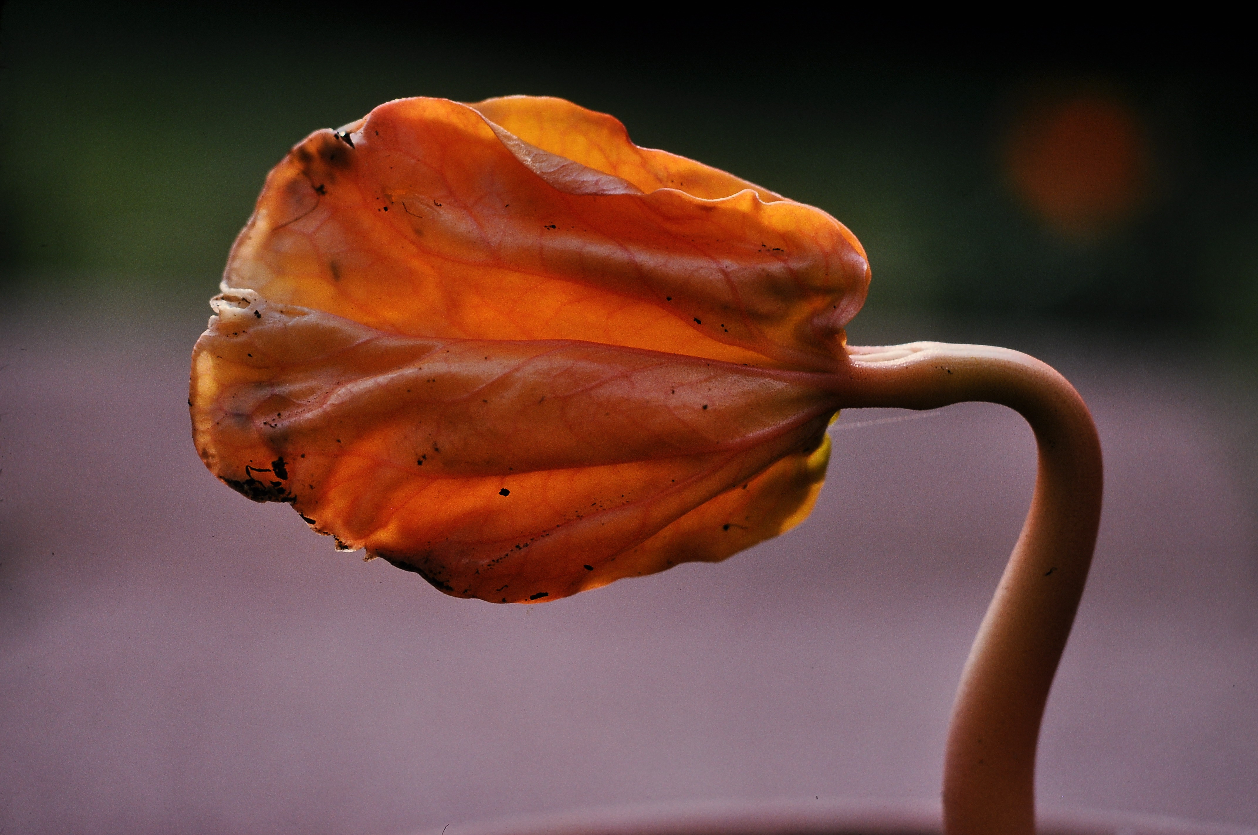 Seed-leaves of Castor oil plant